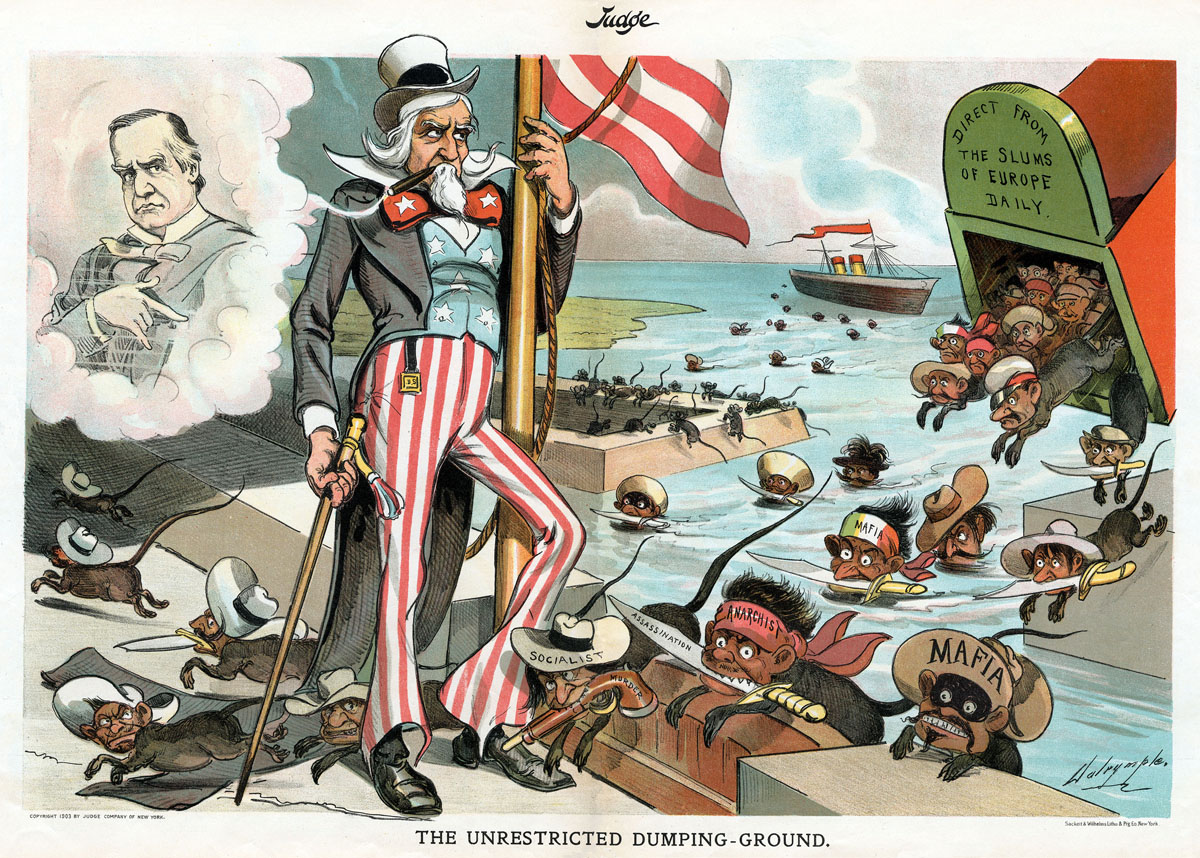 Uncle Sam stands beside an American Flag and the specter of William McKinley while a ship "Direct From the Slums of Europe Daily" releases rats representing undesirable Italian immigrants (e.g. Mafia, Anarchists, Socialists, Murder).